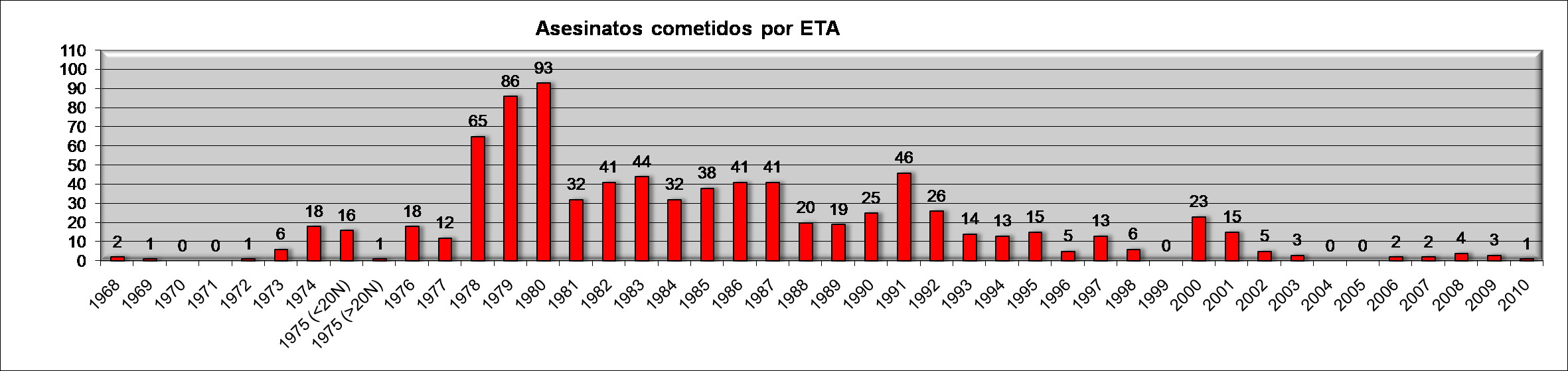 Progression by year of the number of assassinations by ETA